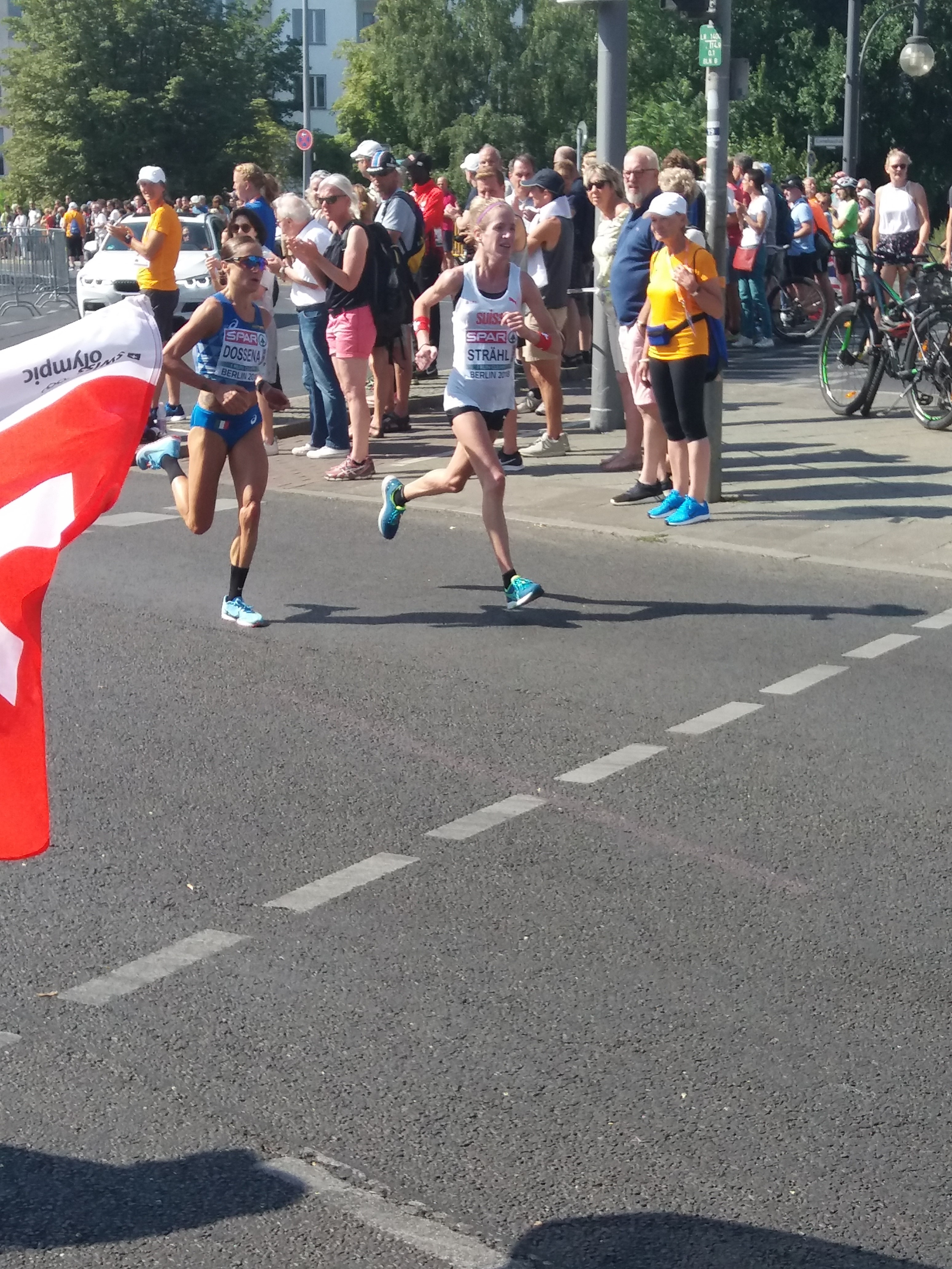 Marathon at the 2018 European Athletics Championships